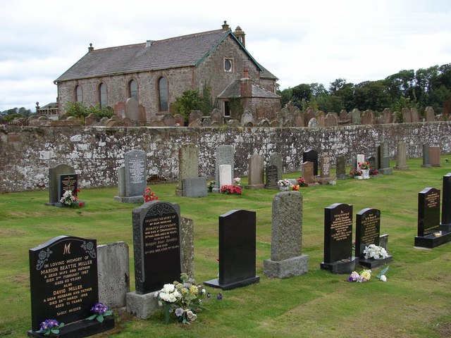 Kirkpatrick Fleming Church Kirkpatrick Fleming Parish Church has been substantially rebuilt since 1726 but retains earlier masonry including a bellcote of 1733. Image of the church taken from the cemetery (S section) and over the old graveyard. The cemetery (E and S sections) contain seven war graves including 4 members of the British Honduras Forestry Unit.